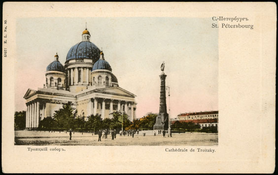 Saint Petersburg (Russia), Trinity Cathedral.